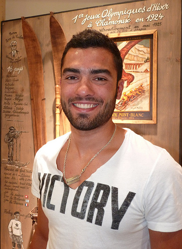 Simon FOURCADE french biathlete